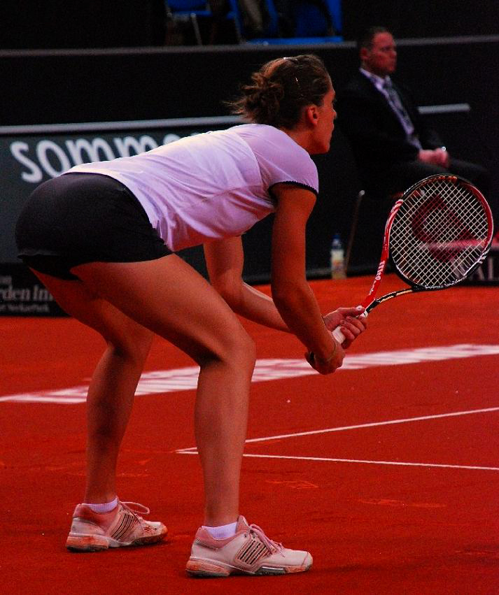 Andrea Petković, Return Position